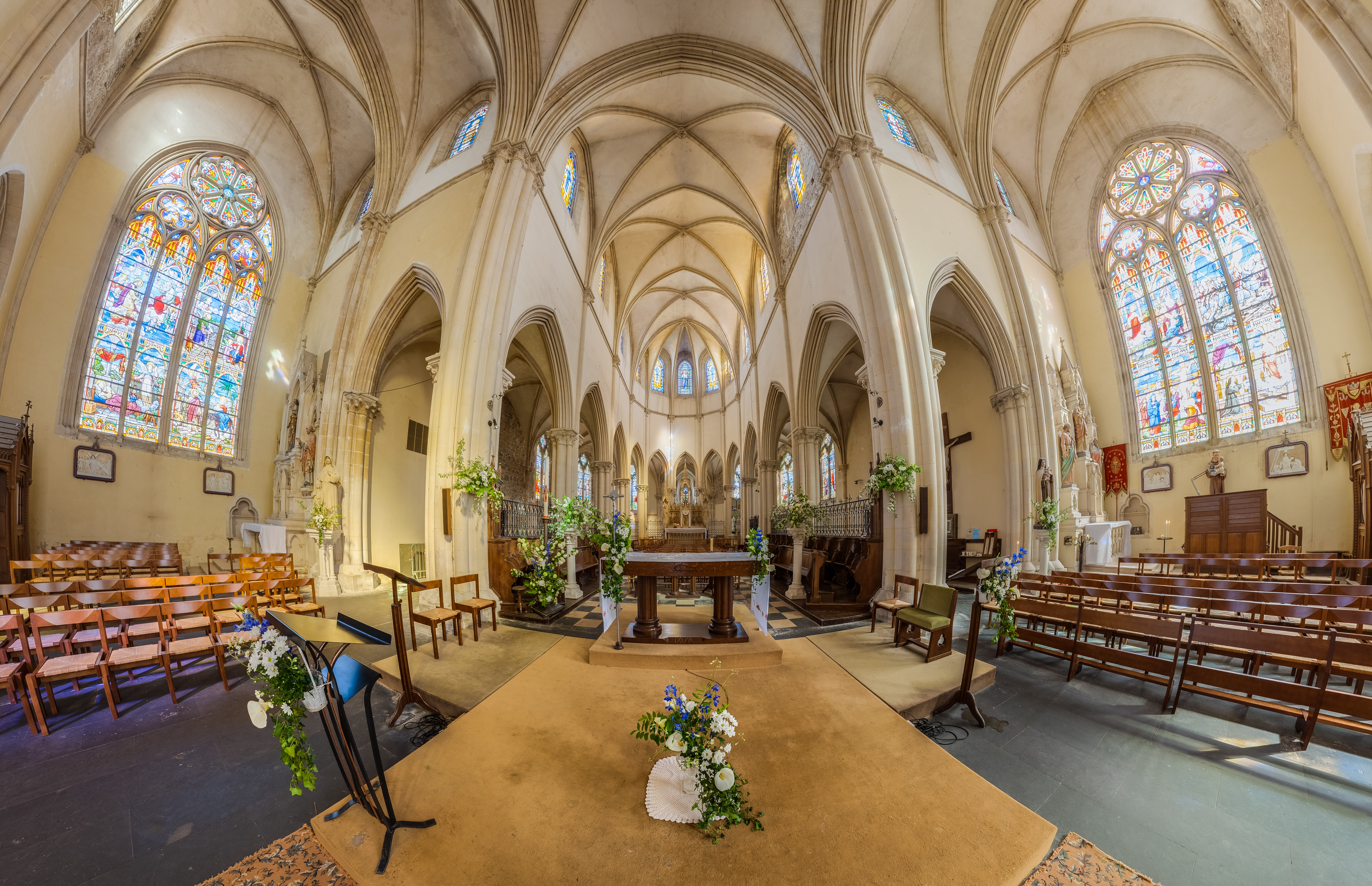 Fisheye view (FOV ~180° ) of Saint-Vaast church's choir and transept, in Saint-Vaast-la-Hougue, Normandy, France. Because of the extreme FOV, it's possible to see both stained glasses at each end of the transept. This photo was taken a day before a wedding, hence the flowers decorations.